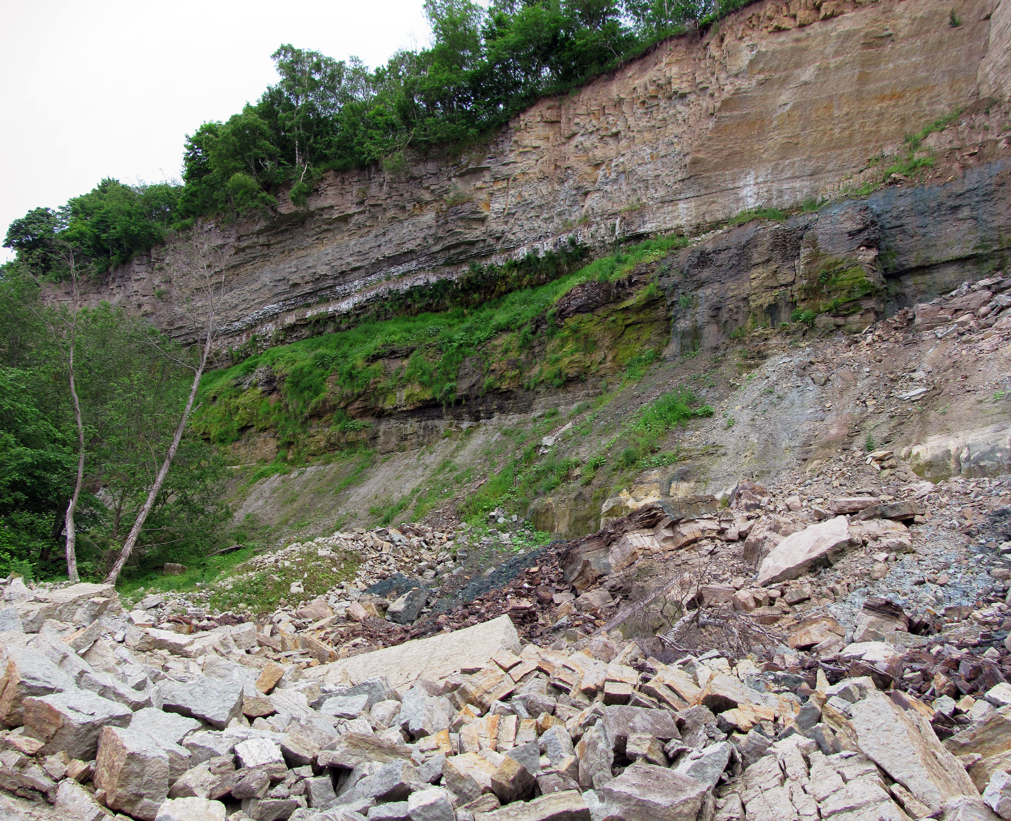 Baltic Klint near Saka, Estonia.